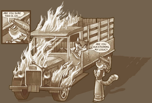 taken from strip #19 with permission from the author. The two characters are Rocky (the one in the truck) and his cousin, Freckle.